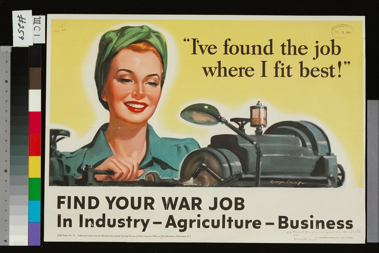 Woman factory worker in jumpsuit coveralls with hair wrapped up operates machinery.